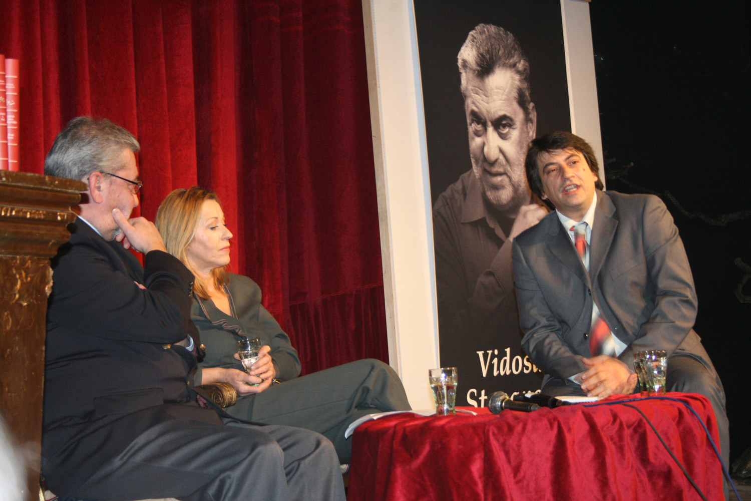 Photo of Vidosav Stevanović, book promotion in Knjaževsko-srpski teatar from City of Kragujevac 14.2.2008.